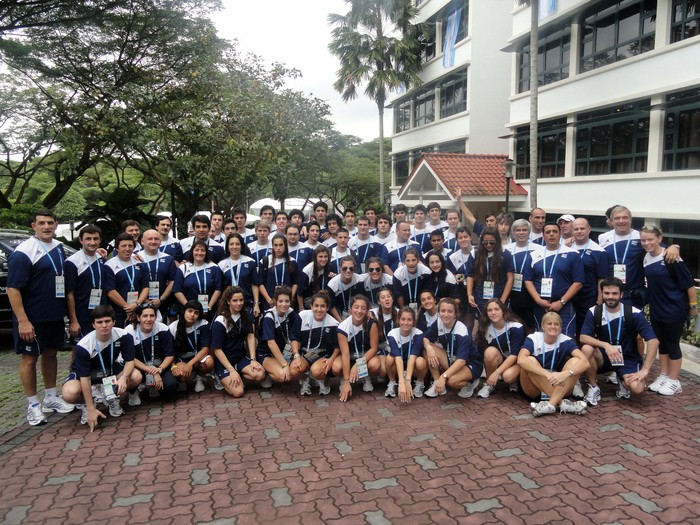 The Argentine delegation of the 2010 Summer Youth Olympic Games.